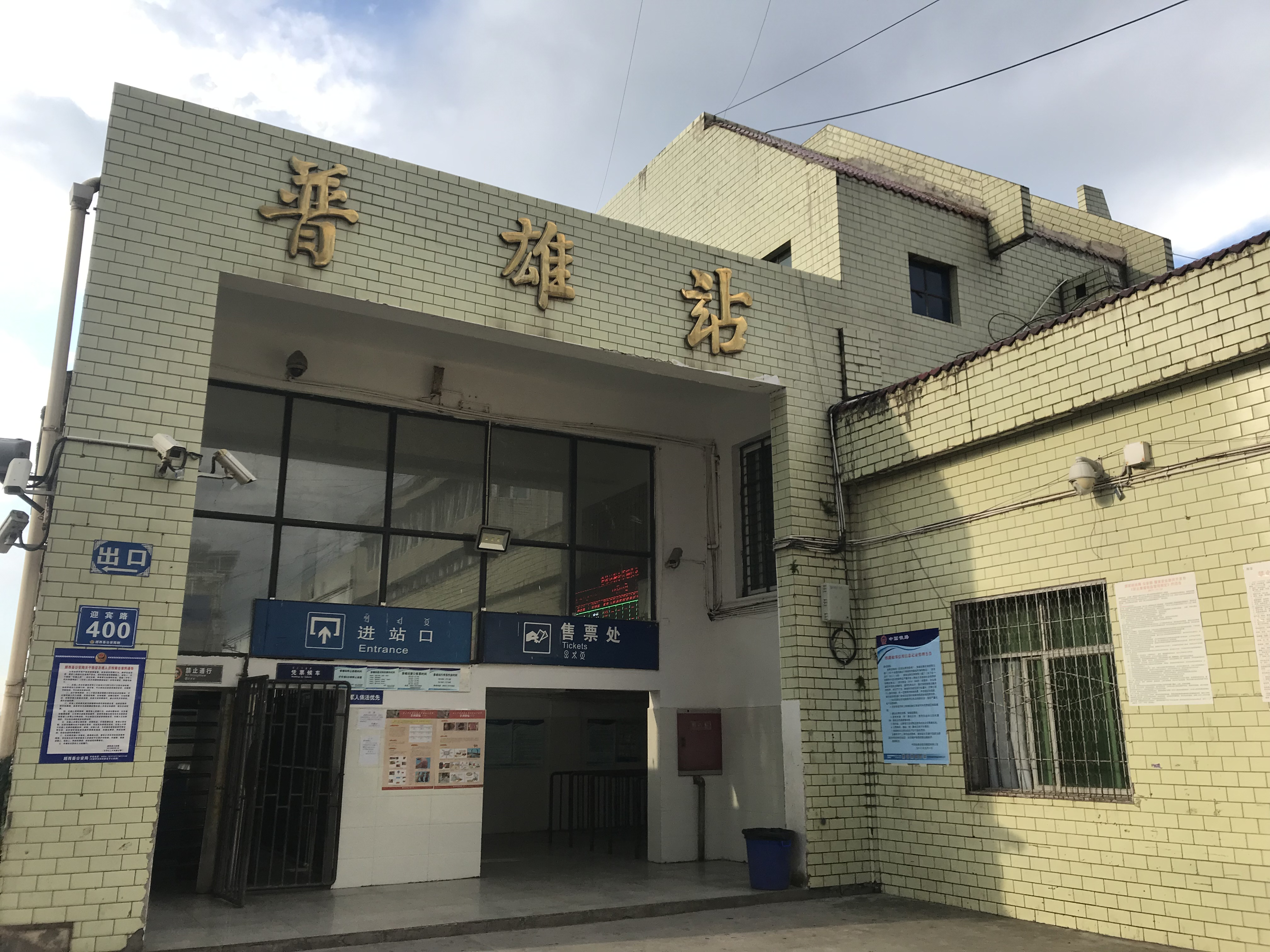 201908 Puxiong Railway Station Building